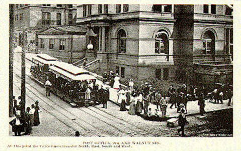 Kansas City postcard showing cable-powered streetcars in front of the Post Office, prior to 1908.